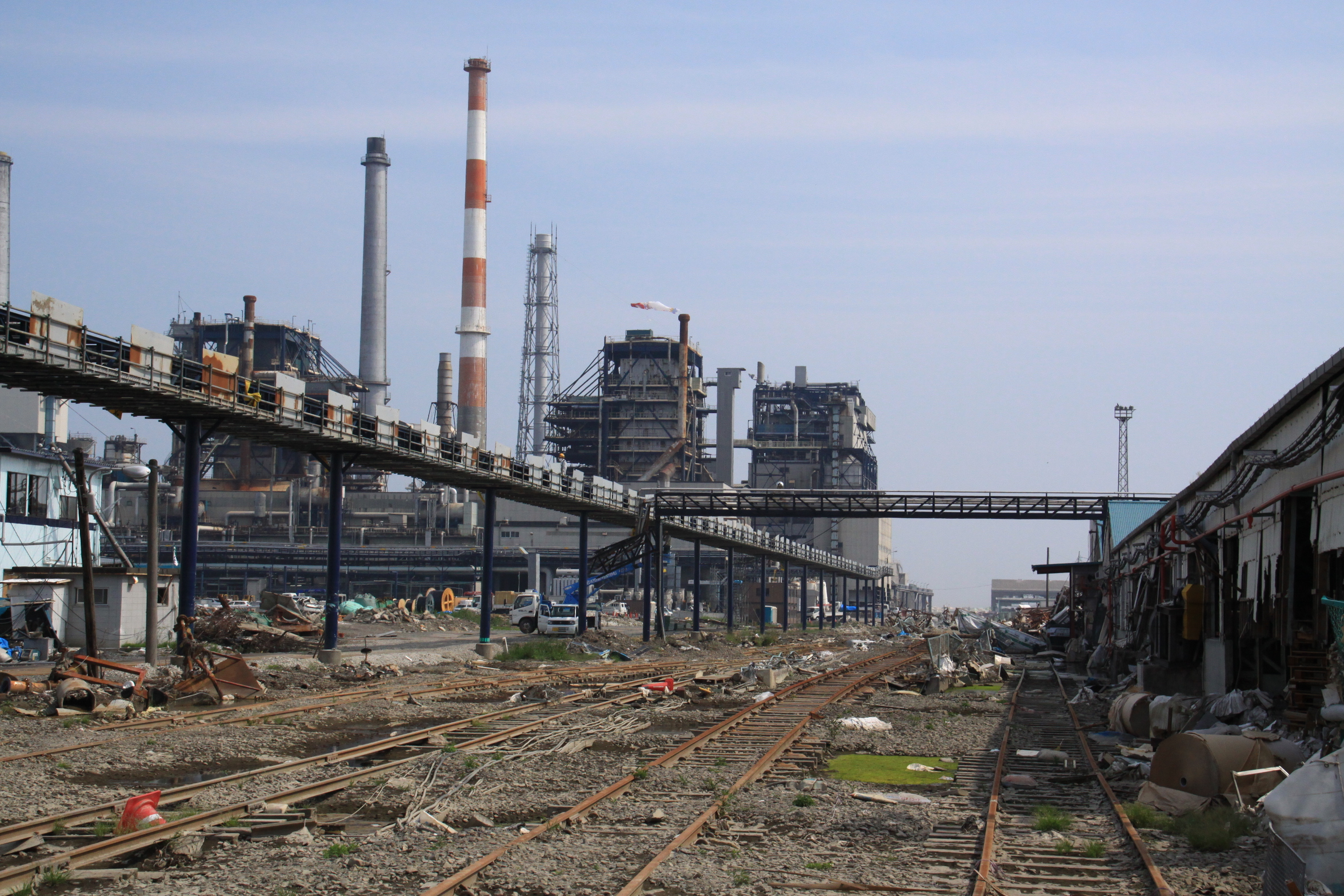 Nippon Paper Industries's Paper mill in Ishinomaki, Miyagi. Here was attacked by Tsunami. Debris have been scattered on the premises. “Date and time of data generation” of Metadata is wrong. Correctness is 7 June 2011.